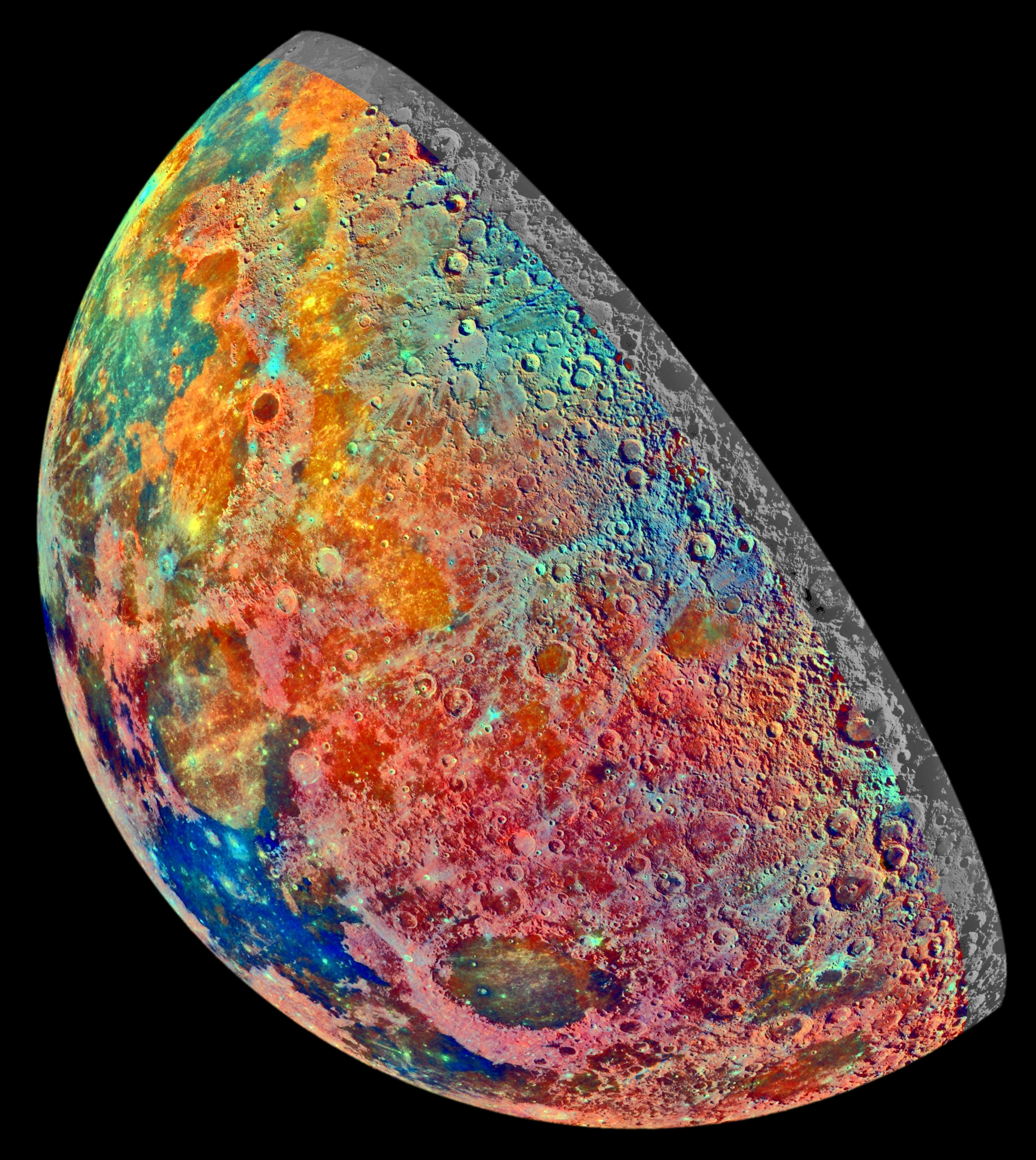 This false-color mosaic was constructed from a series of 53 images taken through three spectral filters by Galileo's imaging system as the spacecraft flew over the northern regions of the Moon on December 7, 1992. The part of the Moon visible from Earth is on the left side in this view. The color mosaic shows compositional variations in parts of the Moon's northern hemisphere. Bright pinkish areas are highlands materials, such as those surrounding the oval lava-filled Crisium impact basin toward the bottom of the picture. Blue to orange shades indicate volcanic lava flows. To the left of Crisium, the dark blue Mare Tranquillitatis is richer in titanium than the green and orange maria above it. Thin mineral-rich soils associated with relatively recent impacts are represented by light blue colors; the youngest craters have prominent blue rays extending from them. The monochrome band on the right edge shows the unretouched surface of the moon. The Galileo project, whose primary mission is the exploration of the Jupiter system in 1995-97, is managed for NASA's Office of Space Science and Applications by the Jet Propulsion Laboratory.